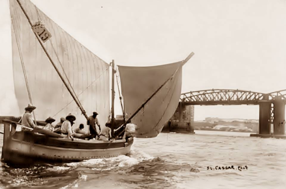 S.L.Cassar, Dgħajsa tal-latini heading under the bridge; MVH